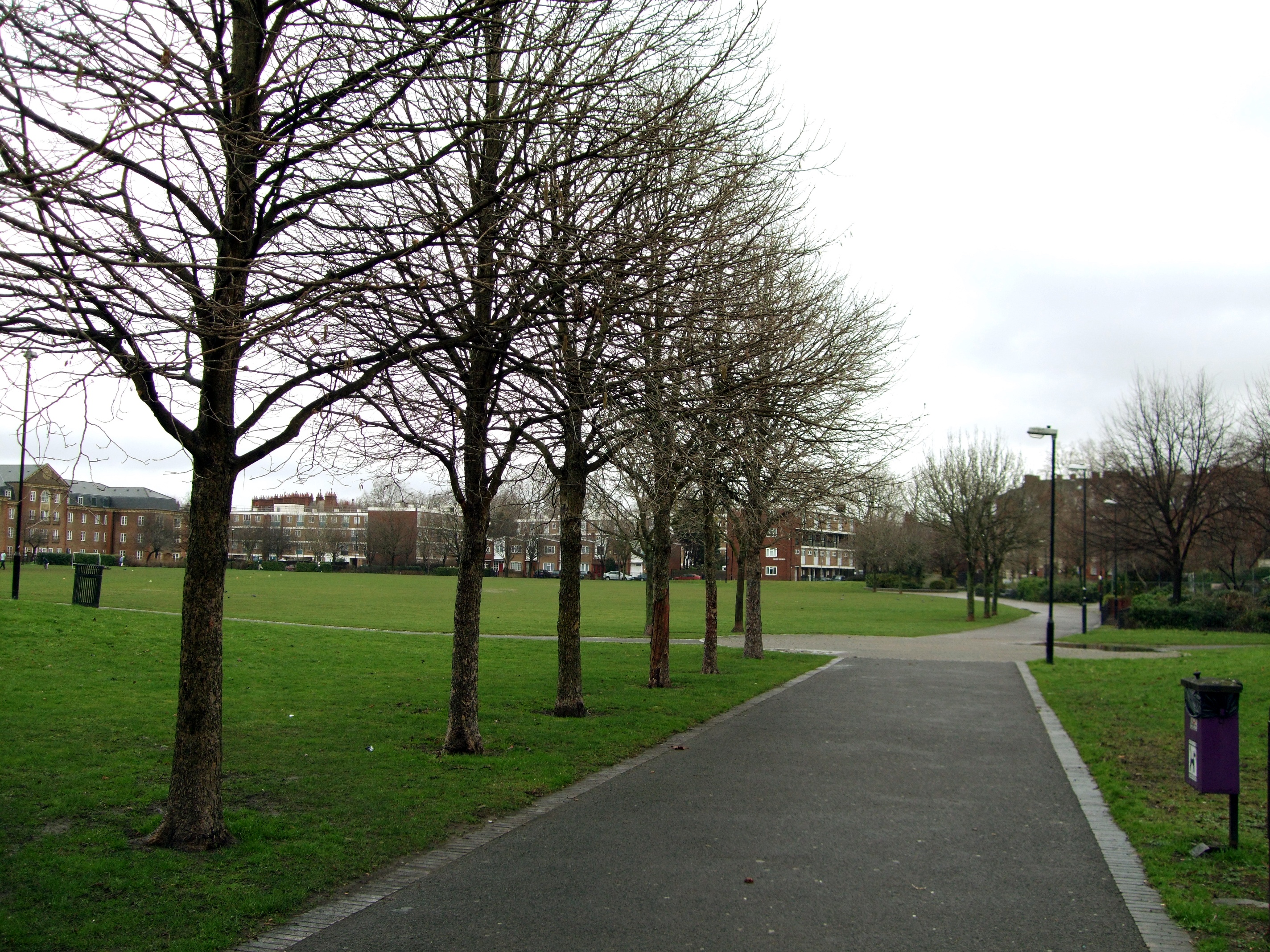 An area of green to break up this heartland of the East End. This is looking north from the Stepney Way entrance. Photo taken January 2009. Owner: London Borough of Tower Hamlets.